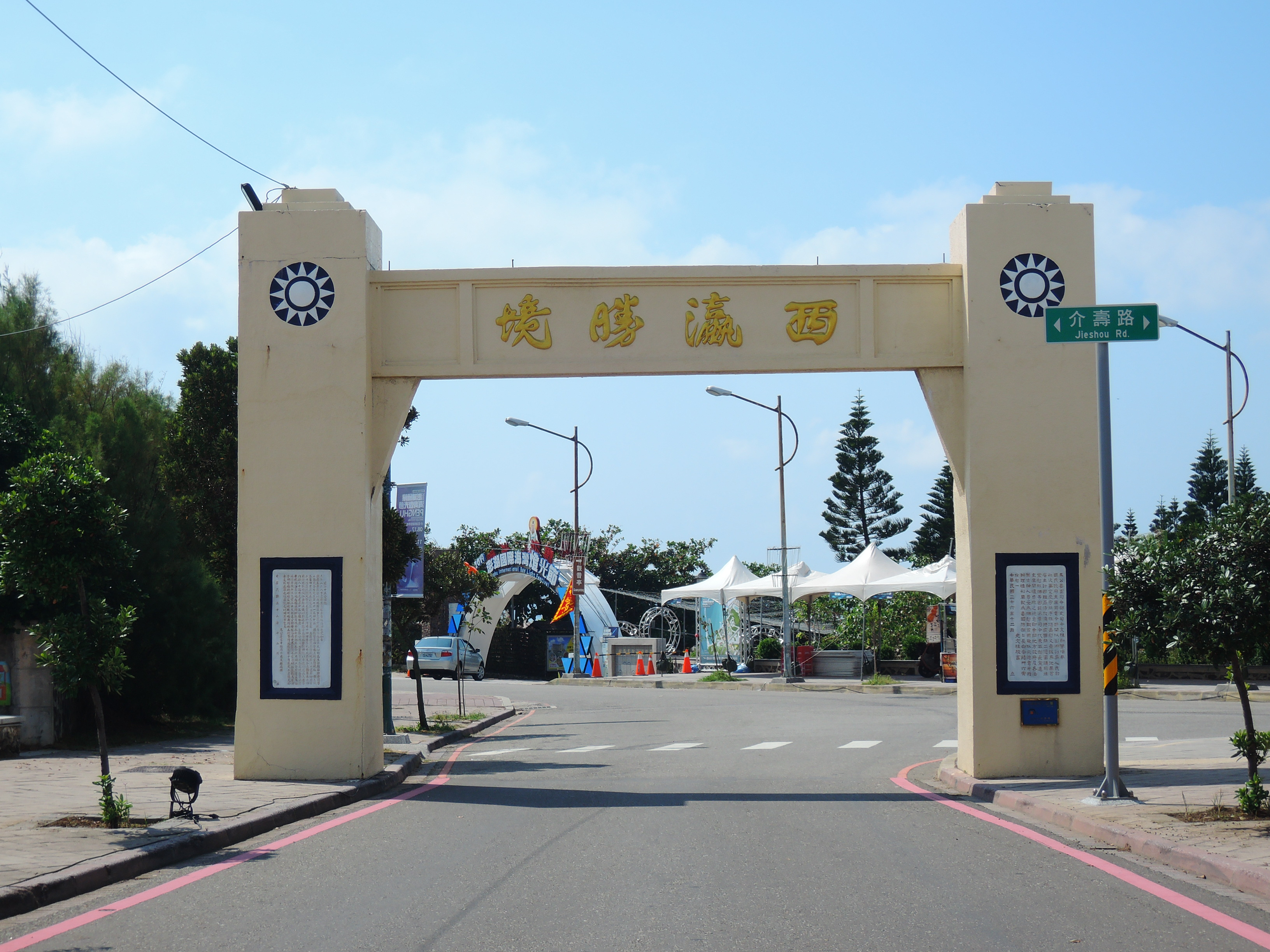 Pailou of Xiying Paradise at Magong City, Penghu